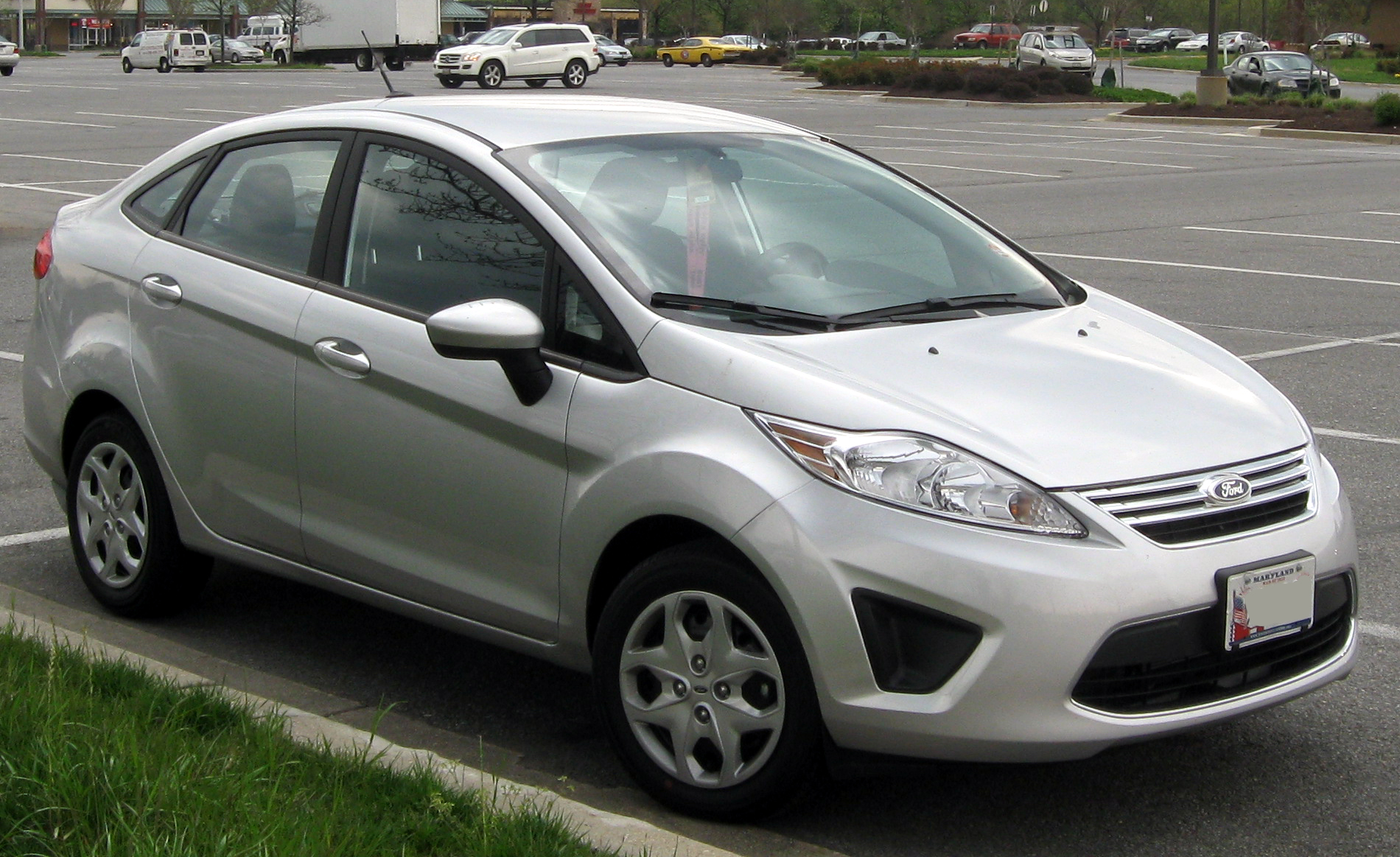 2011-2012 Ford Fiesta photographed in Clinton, Maryland, USA.